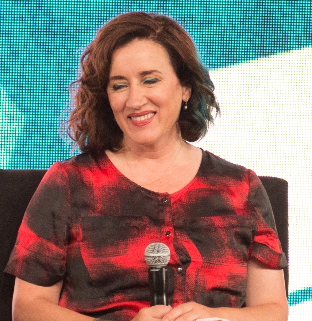 Orphan Black cast members in 2014: Ari Millen, Kristian Bruun, Maria Doyle Kennedy, Dylan Bruce, Jordan Gavaris and Tatiana Maslany